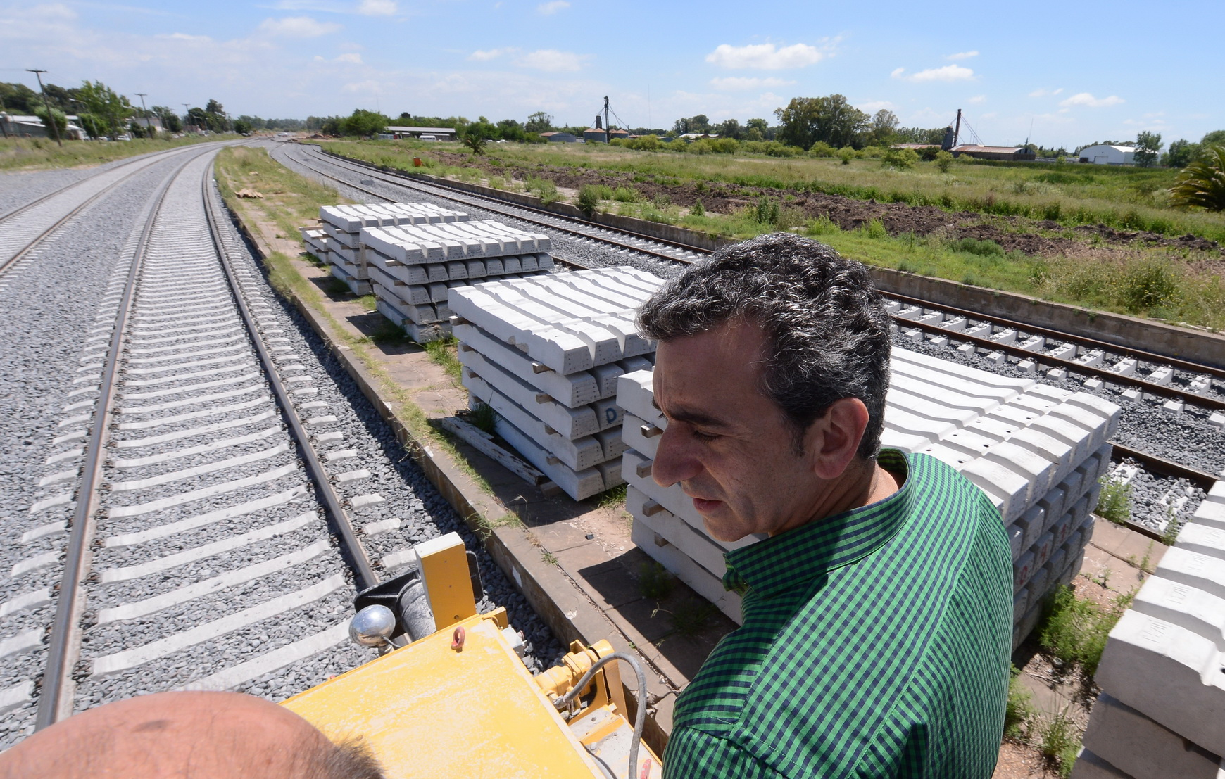 The Minister of the Interior and Transport Florencio Ranzazo inspecting new track.